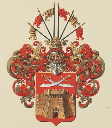 Coat of arms of the noble family of Isarlov (Isarlishvili). From the General Roll of Arms of the Noble Families of the Russian Empire (Общий гербовник дворянских родов Российской империи), v. 16. 1901.